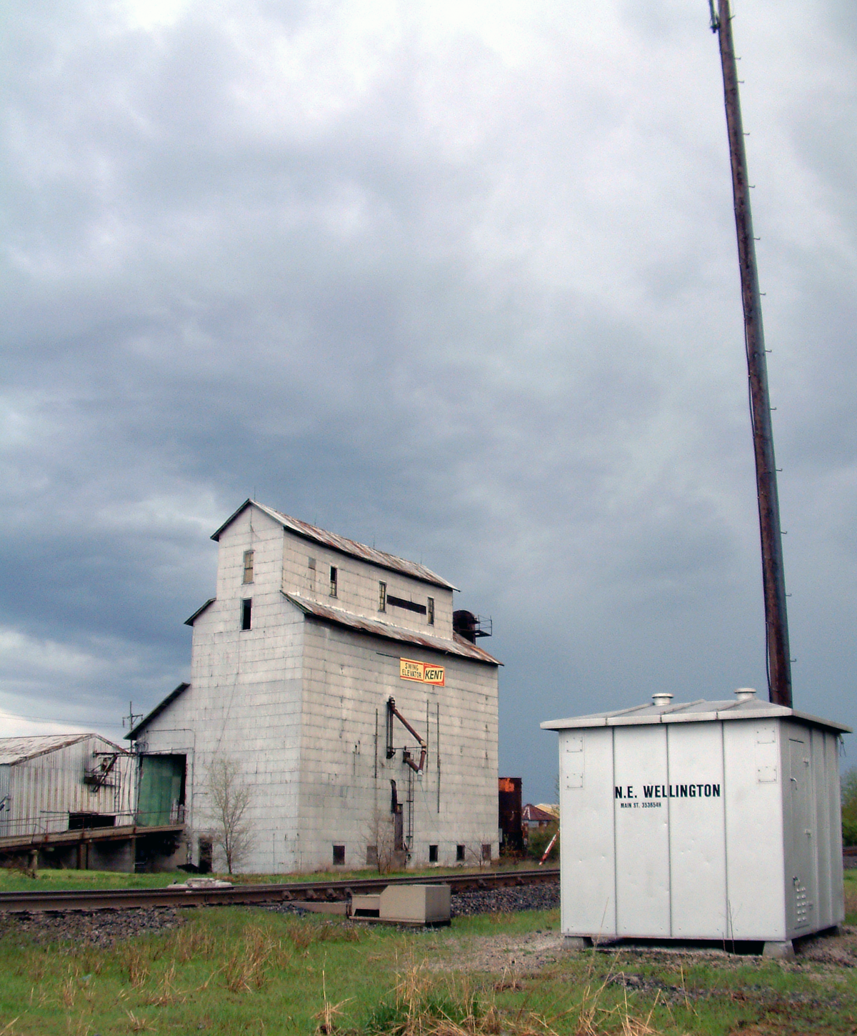 Cloudy skies over the grain elevator and CSX rail line in the village of Wellington, Illinois. Photo looks southeast from the intersection of Main Street and Prairie Street.